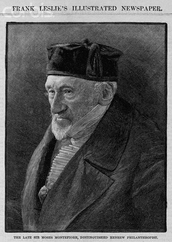 Moses Montefiore